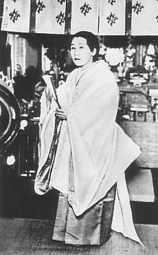 Jikoson(Japanese New Religion "Jiu" Founder)